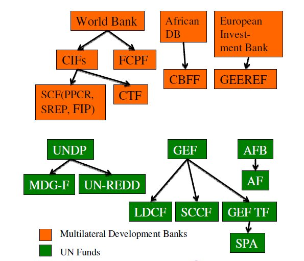 Climate Funds